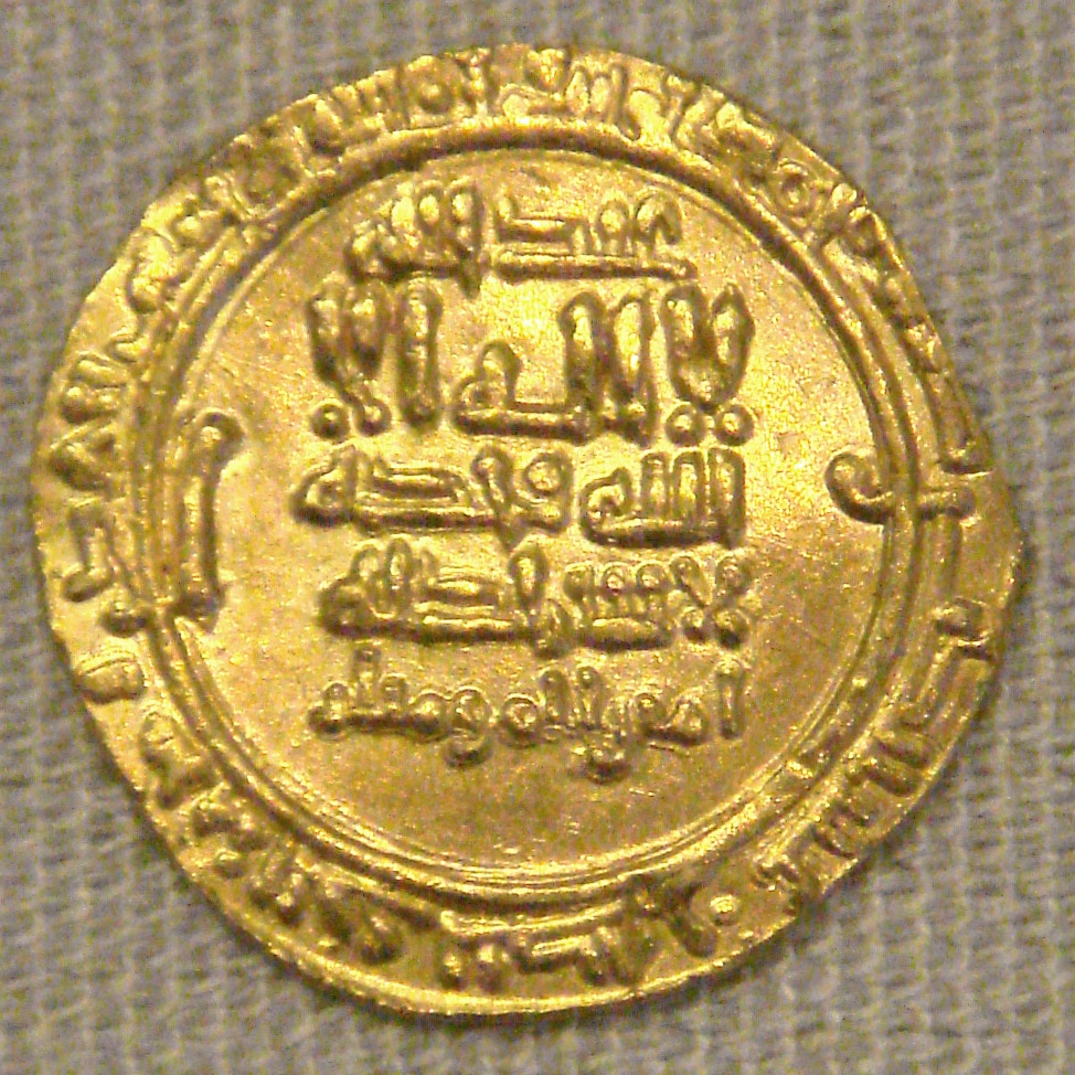 Calif_al_Mahdi_Mahdiyya_926_CE